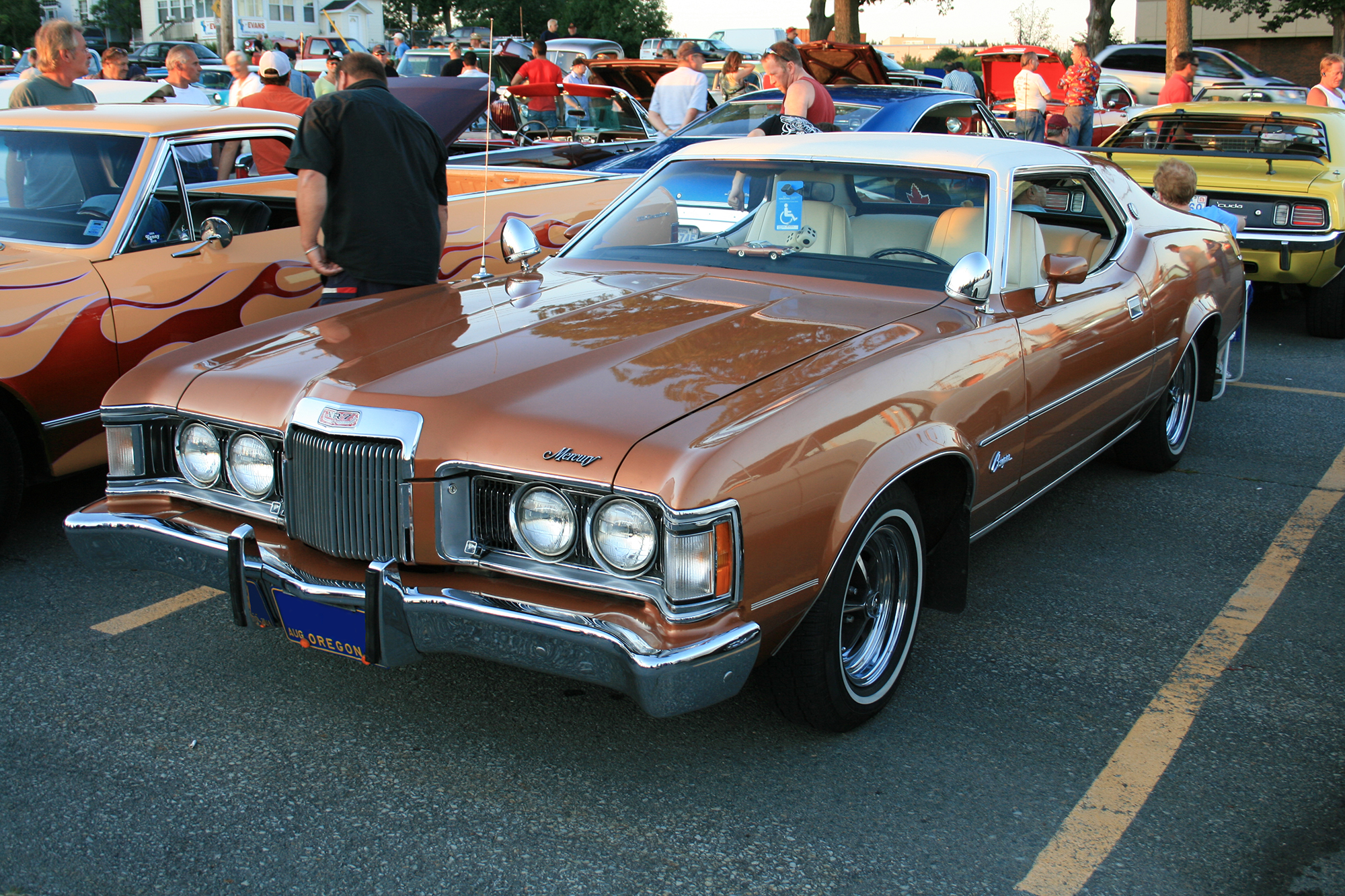 1971-1973 Mercury Cougar XR7